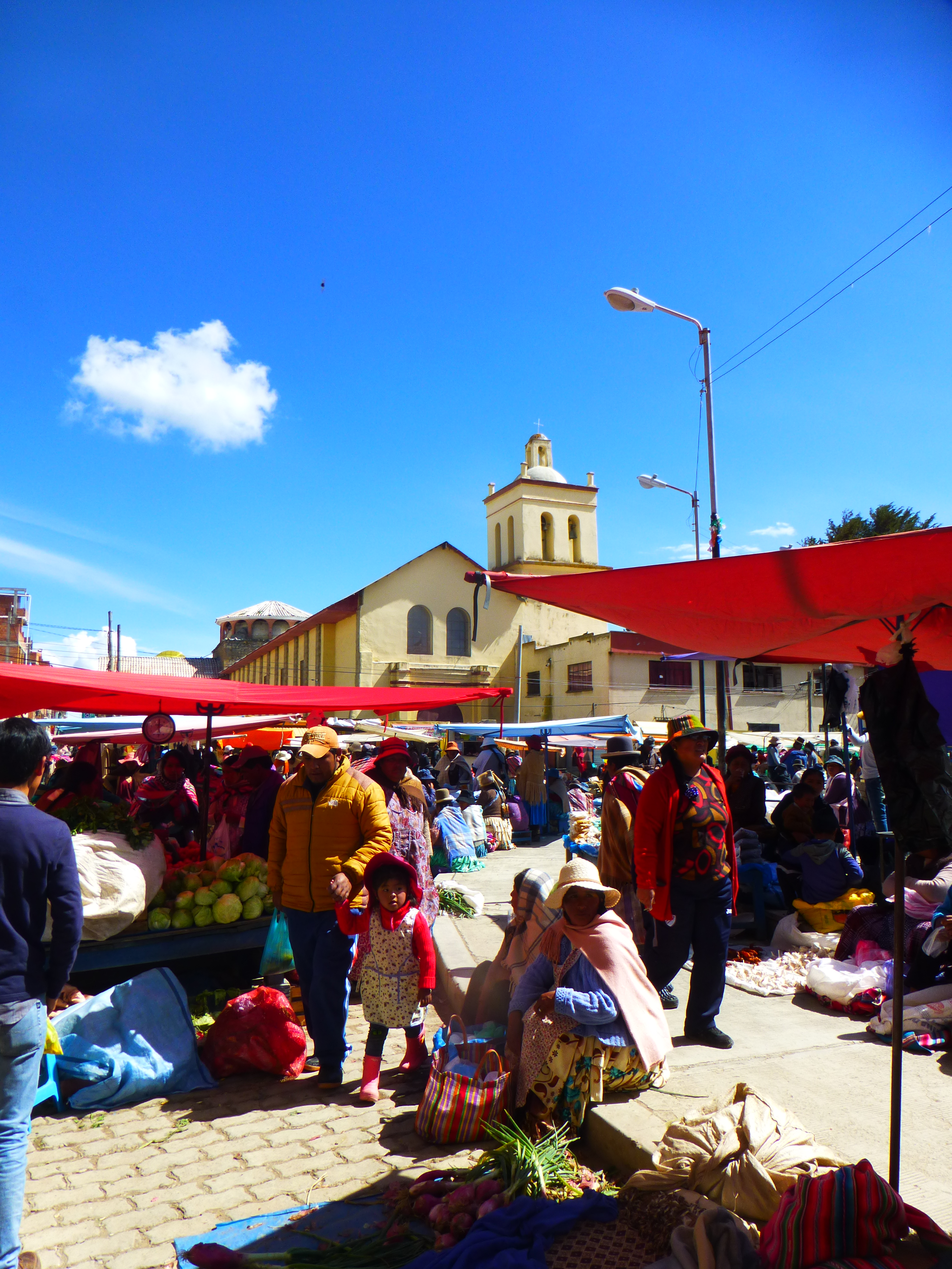 Street market on Achacachi, Bolivia